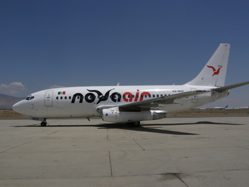 Nova Air 737-200 at the Mojave Airport following retirement. Image also appears on my blog, where it also carries a CC-BY-SA-3.0 license